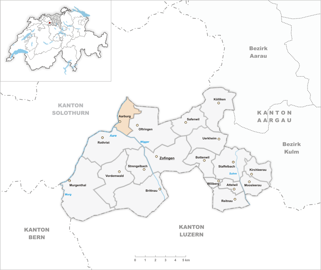 Municipality Aarburg